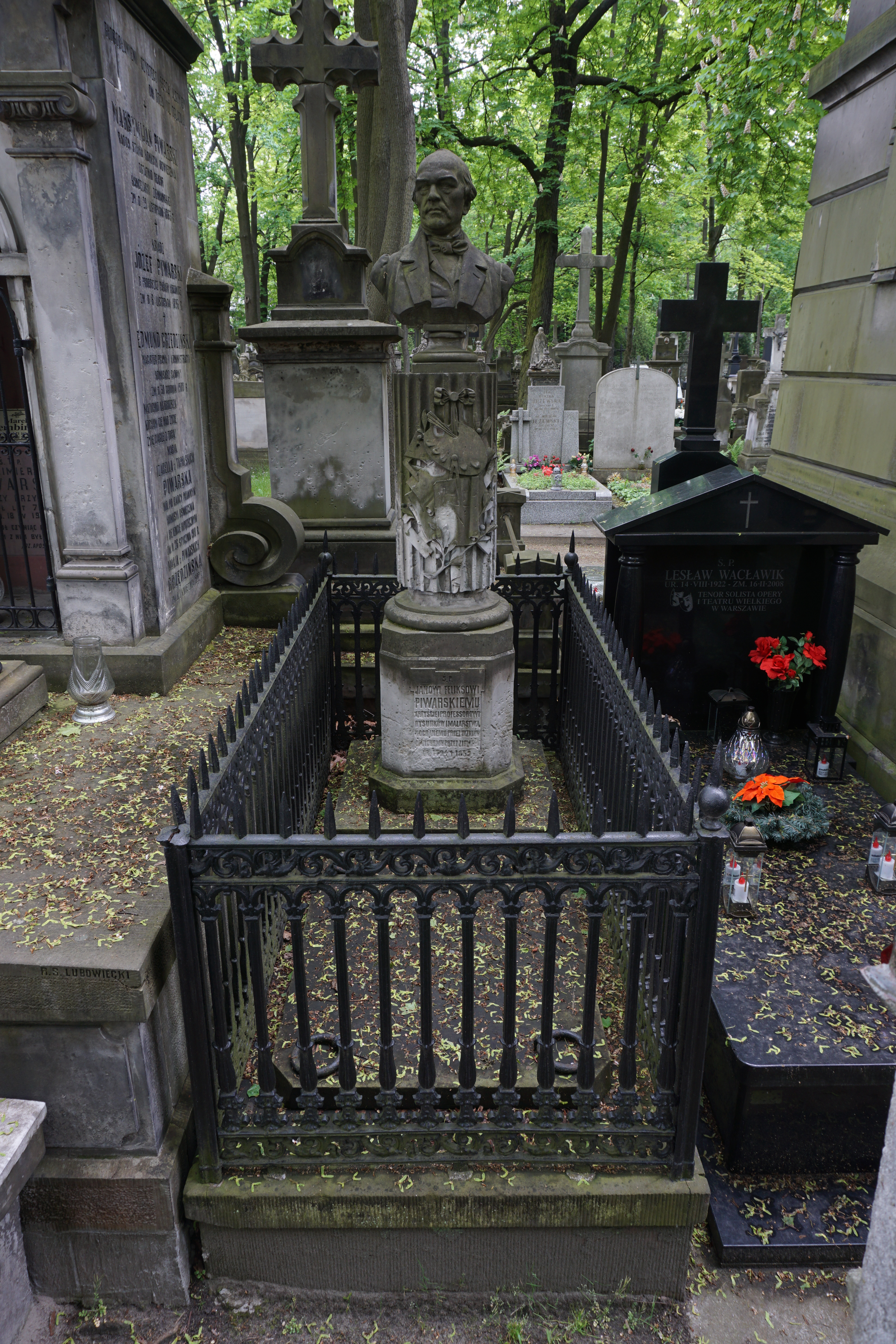 The grave of Jan Feliks Piwarski at the Powązki Cemetery (section 19, row 2, grave 26)